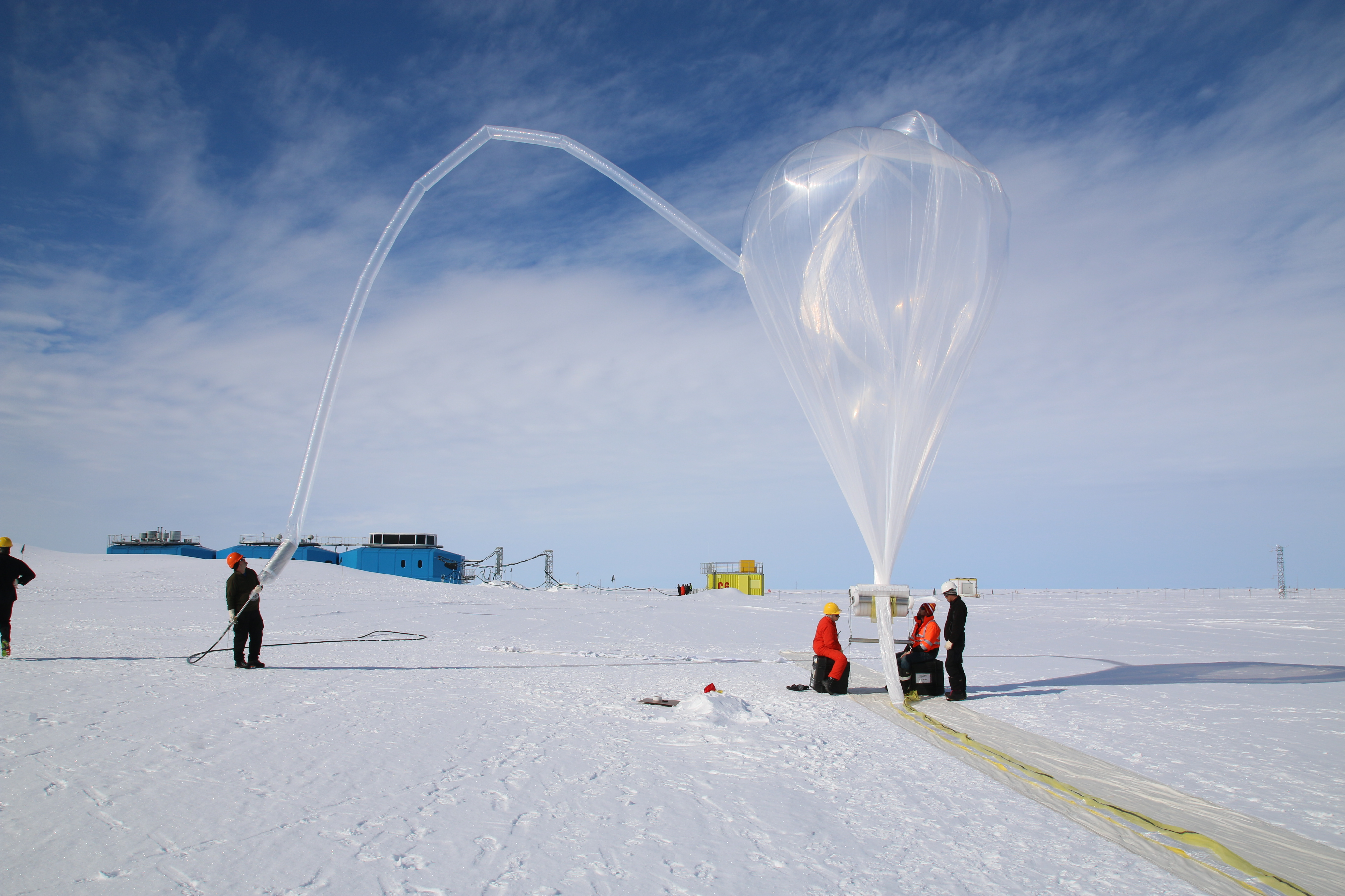 The BARREL team at Halley Research Station in Antarctica, work to inflate a balloon. The long tube on the left is the inflation tube used to fill the top of the balloon with helium. Credit: NASA/Goddard/BARREL -- Three months, 20 balloons, and one very successful campaign. The team for NASA's BARREL – short for Balloon Array for Radiation belt Relativistic Electron Losses -- mission returned from Antarctica in March 2014. BARREL's job is to help unravel the mysterious Van Allen belts, two gigantic donuts of radiation that surround Earth, which can shrink and swell in response to incoming energy and particles from the sun and sometimes expose satellites to harsh radiation. While in Antarctica, the team launched 20 balloons carrying instruments that sense charged particles that are scattered into the atmosphere from the belts, spiraling down the magnetic fields near the South Pole. Each balloon traveled around the pole for up to three weeks. The team will coordinate the BARREL data with observations from NASA's two Van Allen Probes to better understand how occurrences in the belts relate to bursts of particles funneling down toward Earth. BARREL team members will be on hand at the USA Science and Engineering Festival in DC on April 26 and 27, 2014 for the exhibit Space Balloons: Exploring the Extremes of Space Weather. NASA image use policy NASA Goddard Space Flight Center enables NASA’s mission through four scientific endeavors: Earth Science, Heliophysics, Solar System Exploration, and Astrophysics. Goddard plays a leading role in NASA’s accomplishments by contributing compelling scientific knowledge to advance the Agency’s mission.